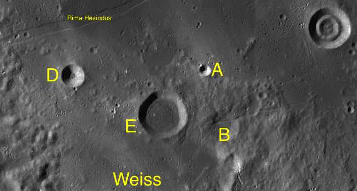 Part of LAC-94 chart used for the presentation.